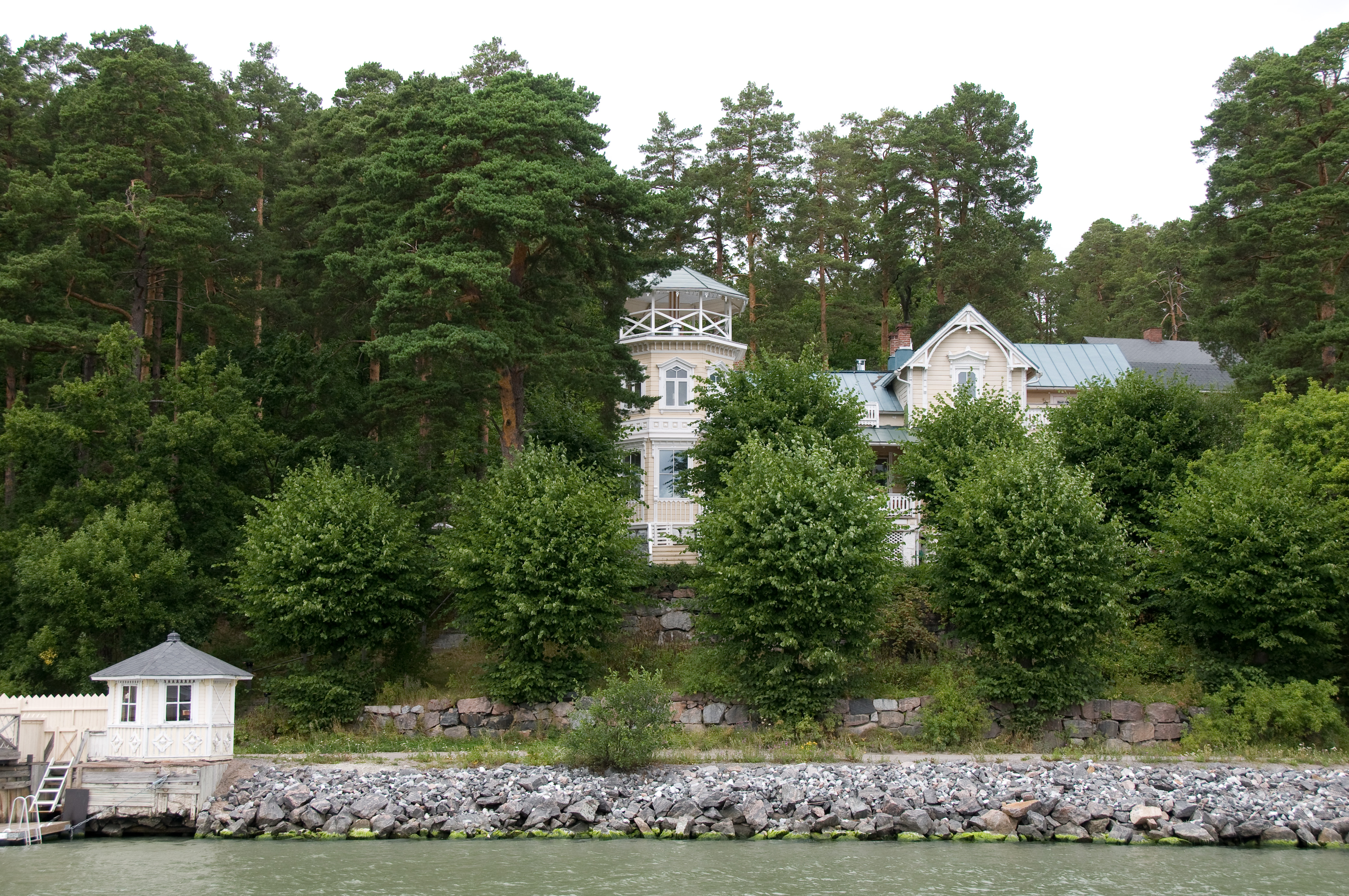 Uploaded with the Flock Browser